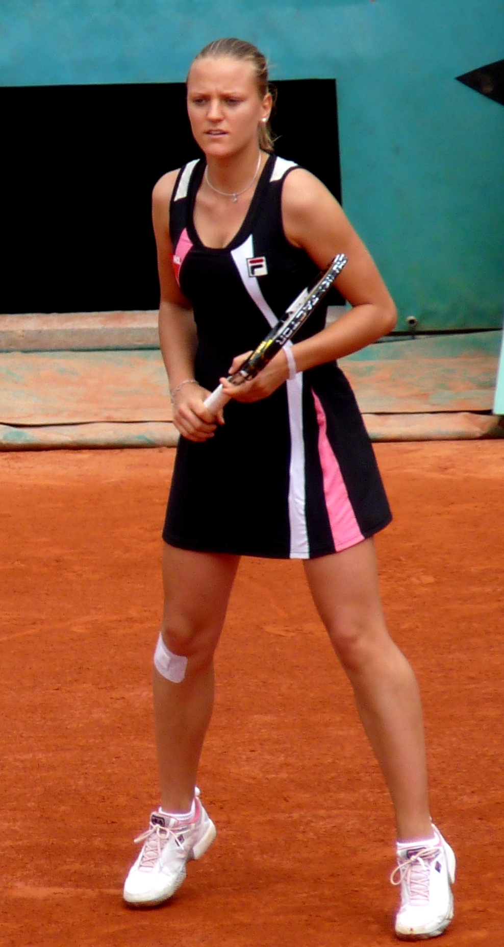 Ágnes Szávay against Venus Williams in the 2009 French Open third round